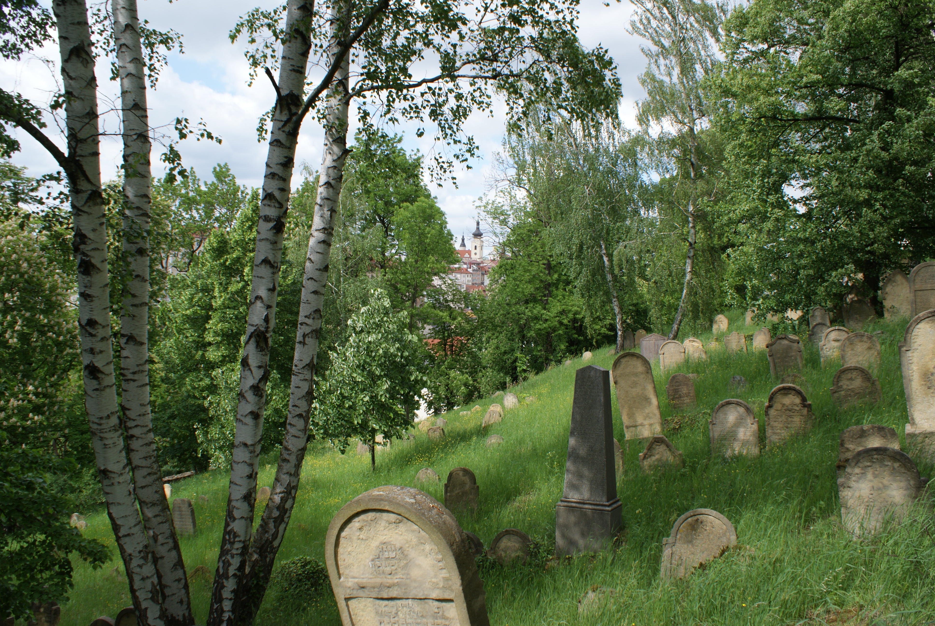 Jewish cemetery in Mladá Boleslav, Czech Republic.